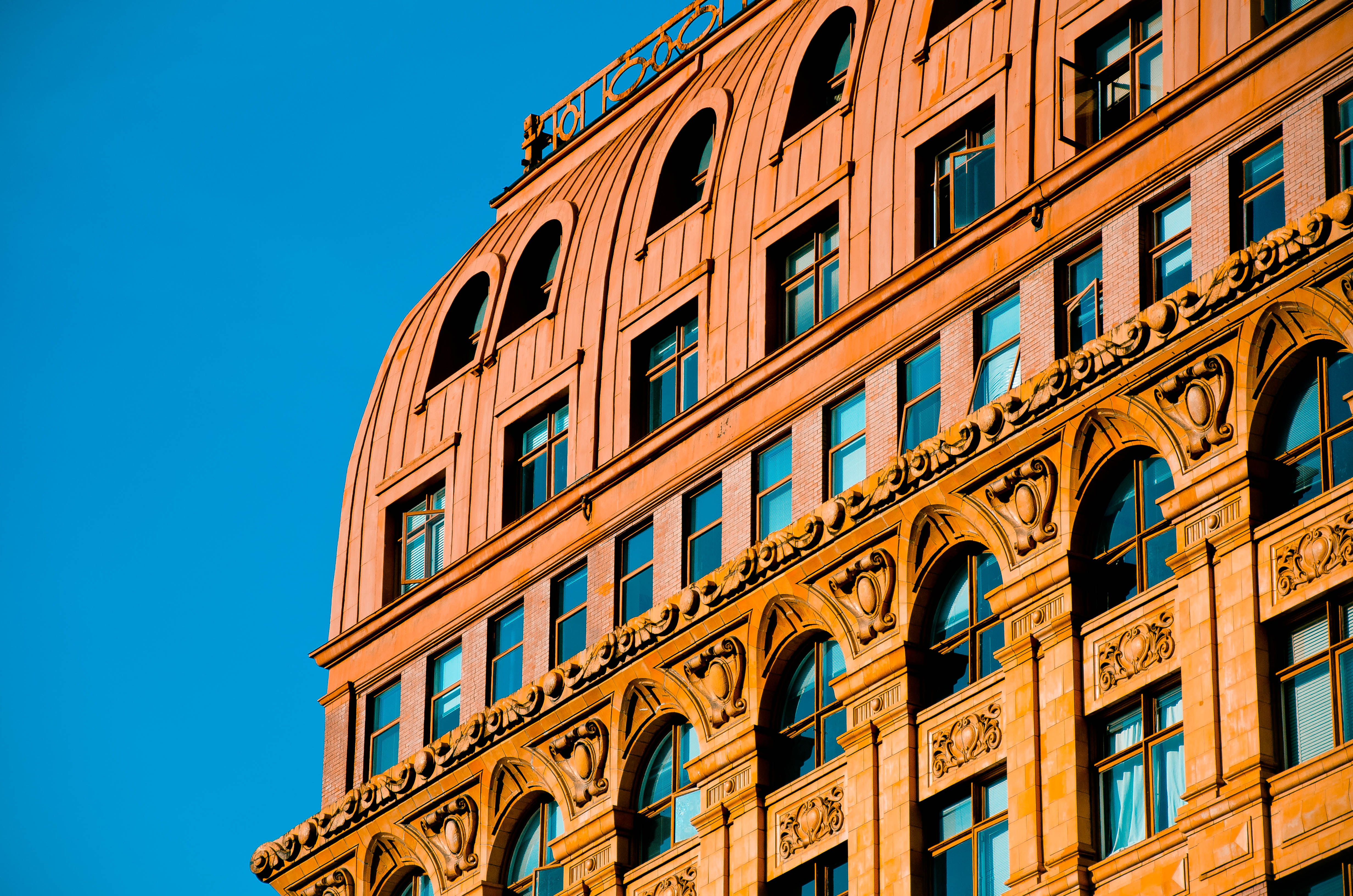 The Toronto Dominion Bank Building, Vancouver, British Columbia, Canada.